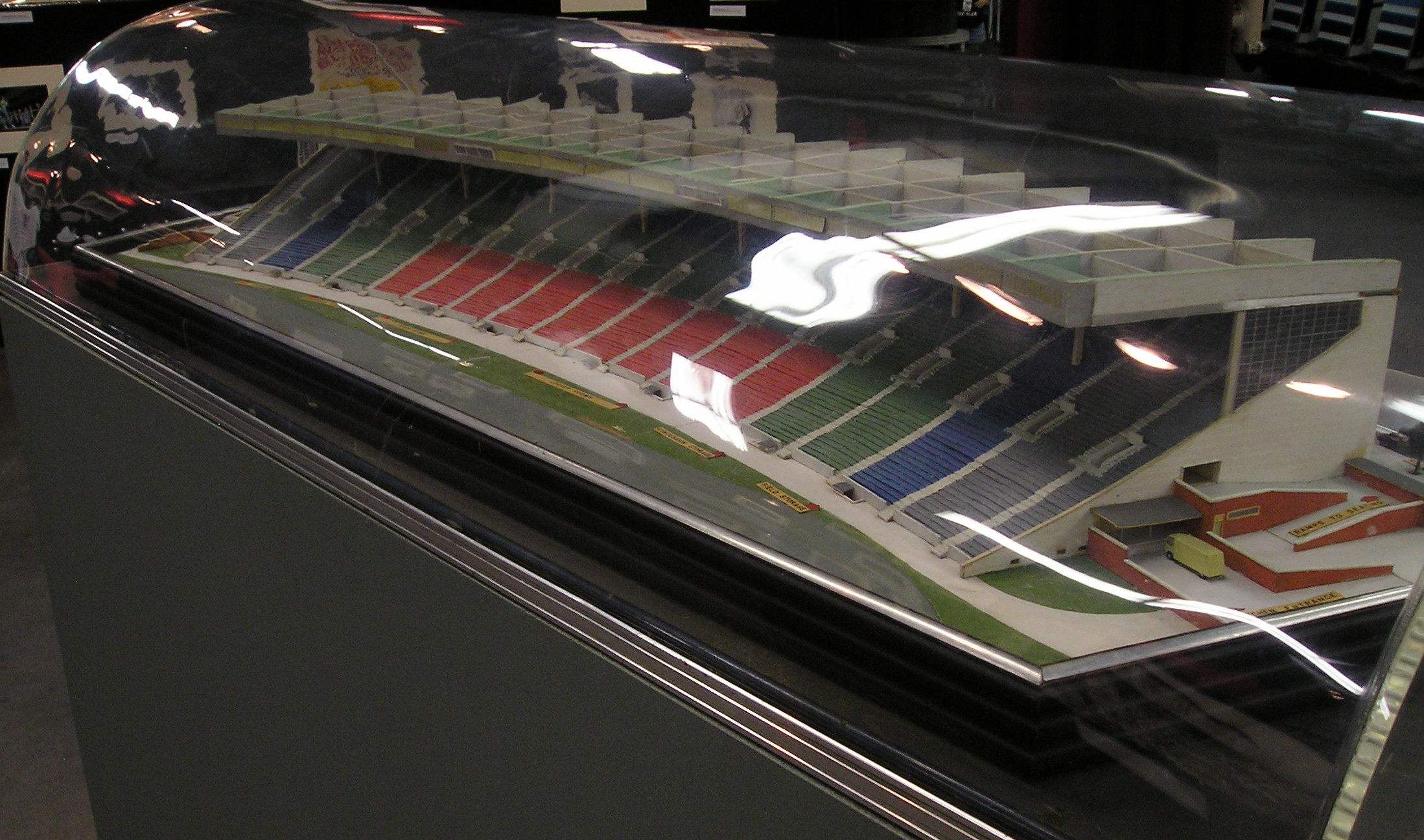 Original architectural model of the fourth (and last) Exhibition Stadium, built in the late 1940s. On display at a special exhibit commemorating the "baby boomer" years at the CNE. Shot on August 25th 2005 on the CNE Grounds, Toronto.